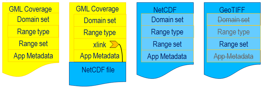 Coverages can be encoded in different formats: pure GML, some other format, or a combination of GML and some other format.